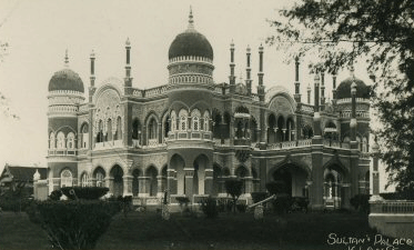 Picture of Sultan of Selangor's official palace in 1905